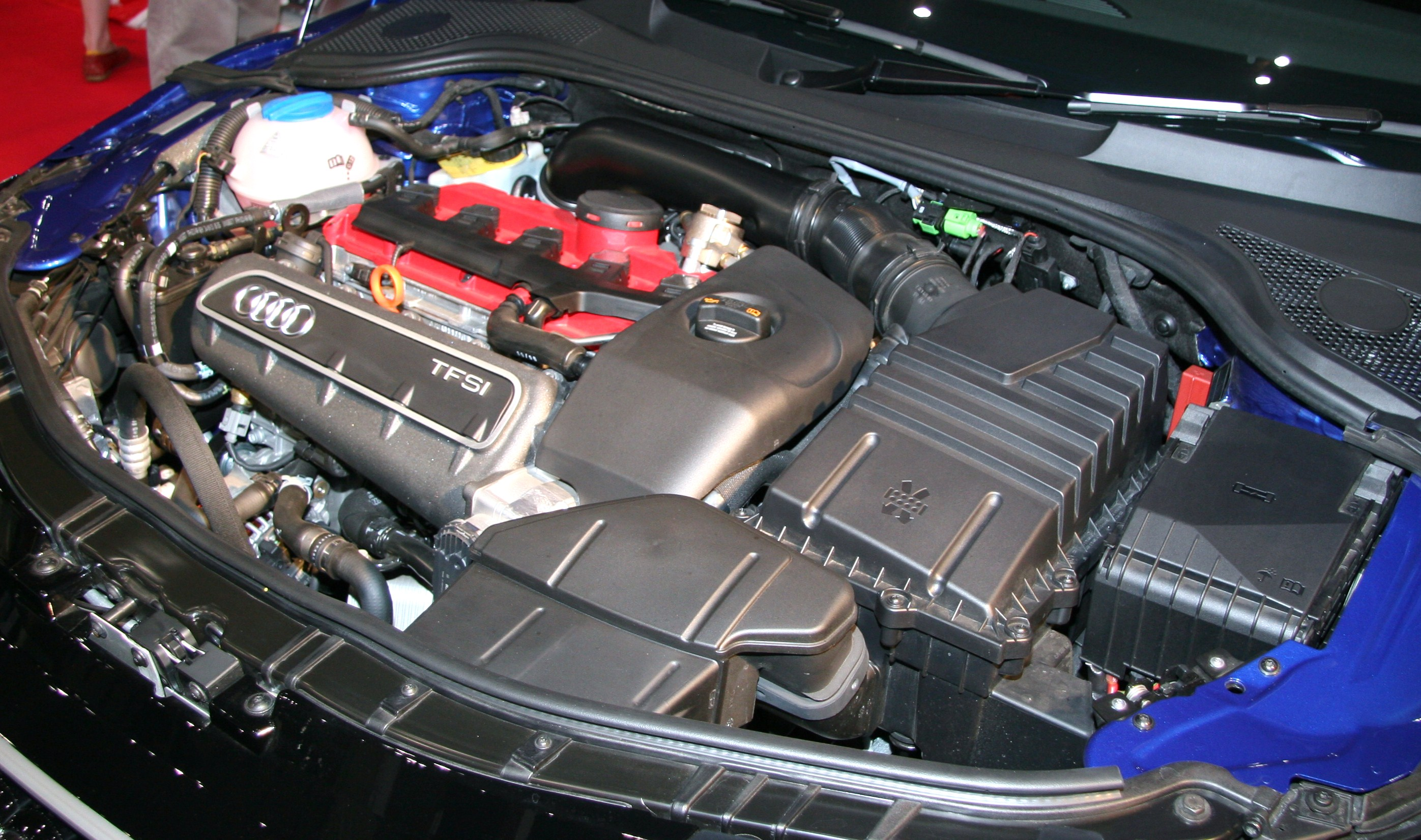 Audi TT RS